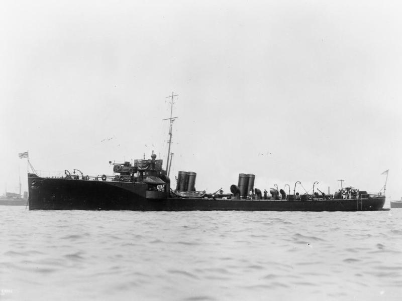 Royal Navy River class destroyer HMS Erne